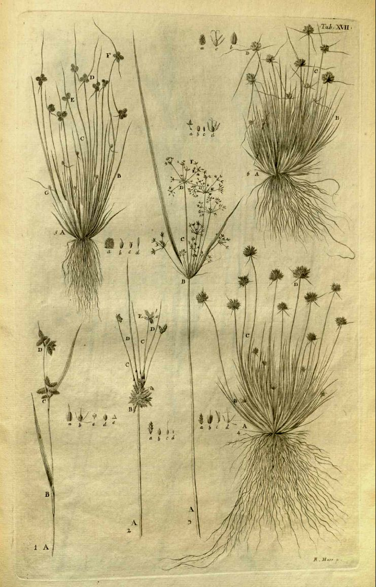 Plate of Cyperaceae from "Descriptionum et iconum rariores et pro maxima parte novas plantas illustrantium.conscriptus a Christiano Friis Rottbøll" By:Rottbøll, Christen Friis,1727-1797 Abildgaard, Nicolai,1743-1809. Haas, Georg,1756-1817. Haas, Meno,1752-1833. Rottbøll, Christen Friis,1727-1797 Publication info:Hafniae :Sumptibus Societatis Typographicae,1773.